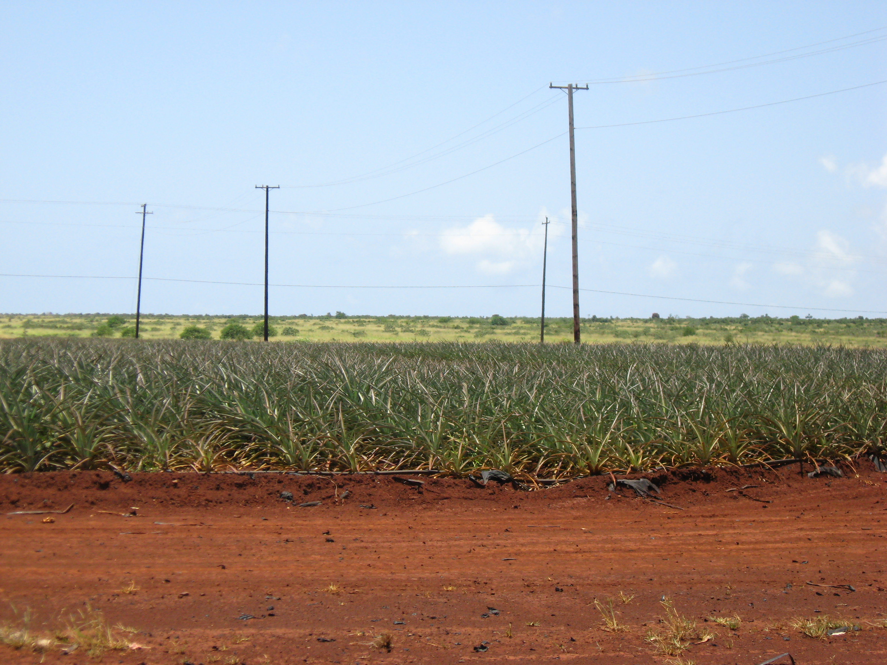 Dole Food Company's pineapple plantation in Oahu, Hawaii